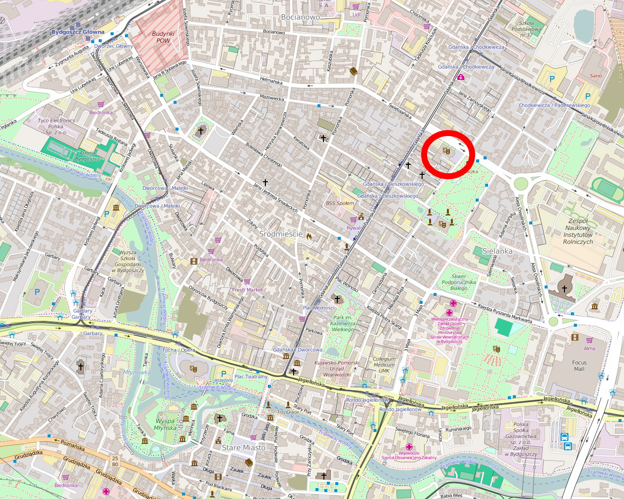 Map TP BDG